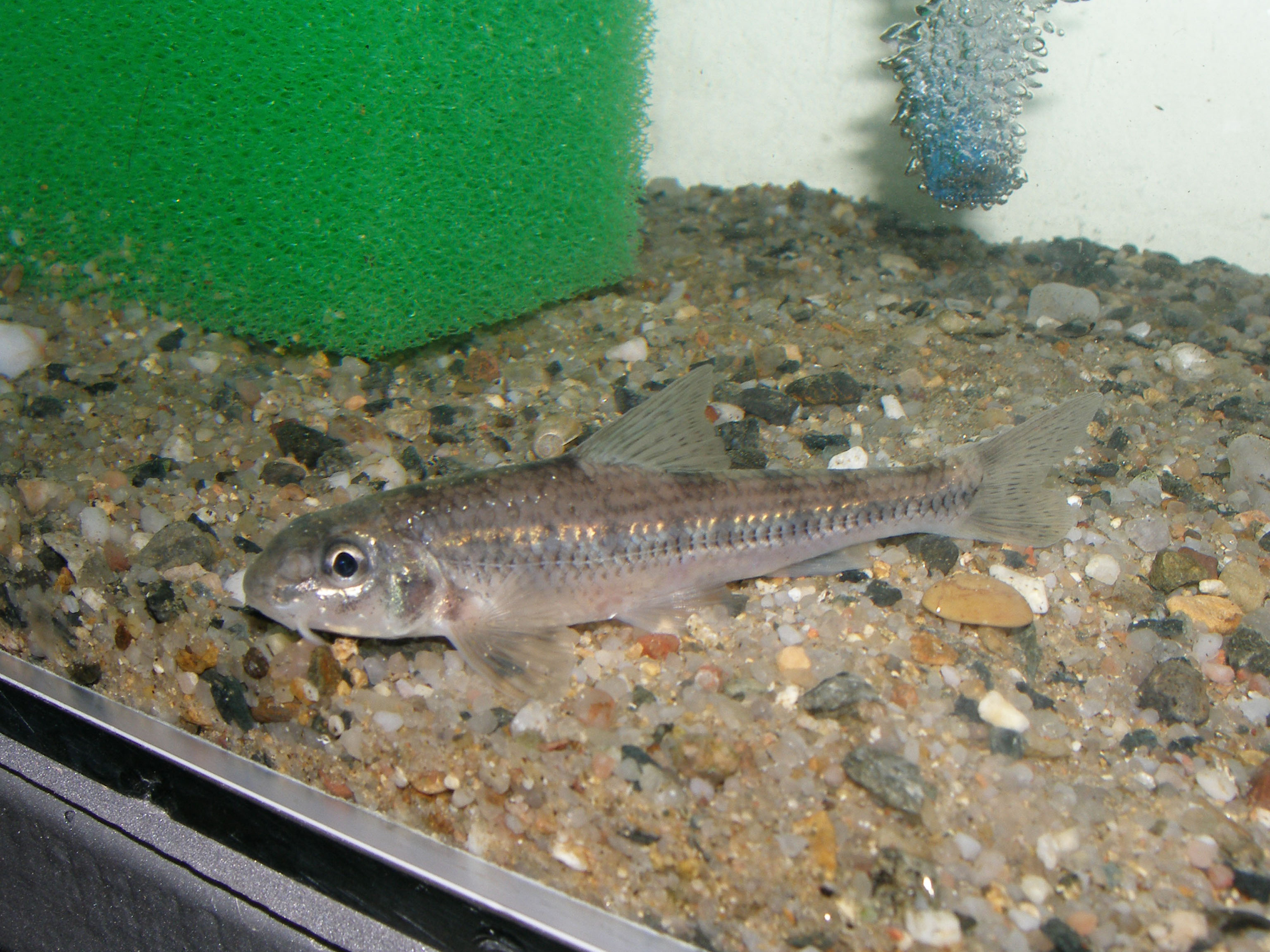 The Danube whitefin gudgeon (Romanogobio vladykovi) from the Morava River, Czech Republic